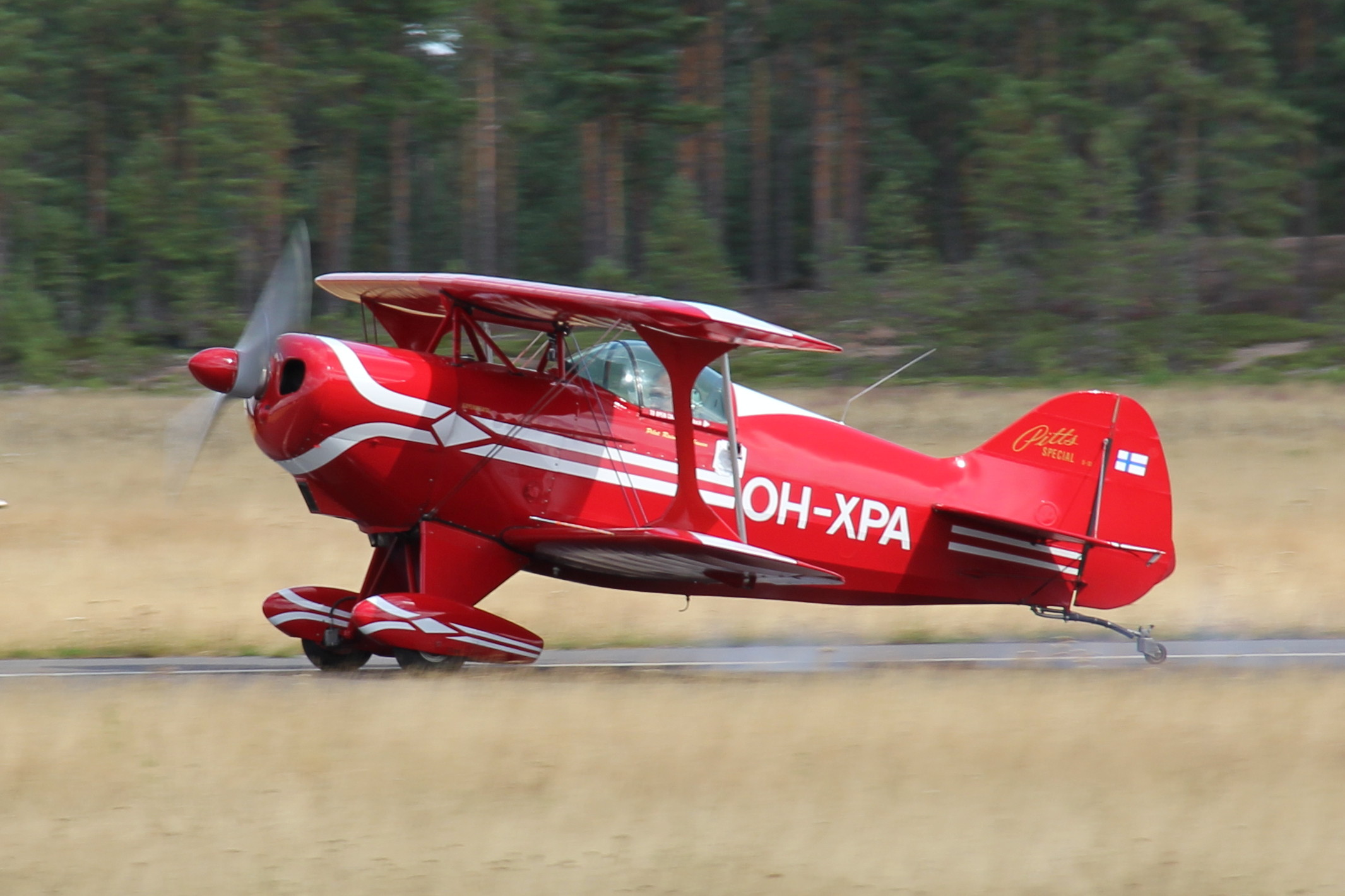 Pitts S-1 Special, single-seat aerobatic biplane, registration number OH-XPA, in Oripää Airshow 2013, at Oripää Airfield (EFOP), Finland. Pilot: Raimo Nikkanen.